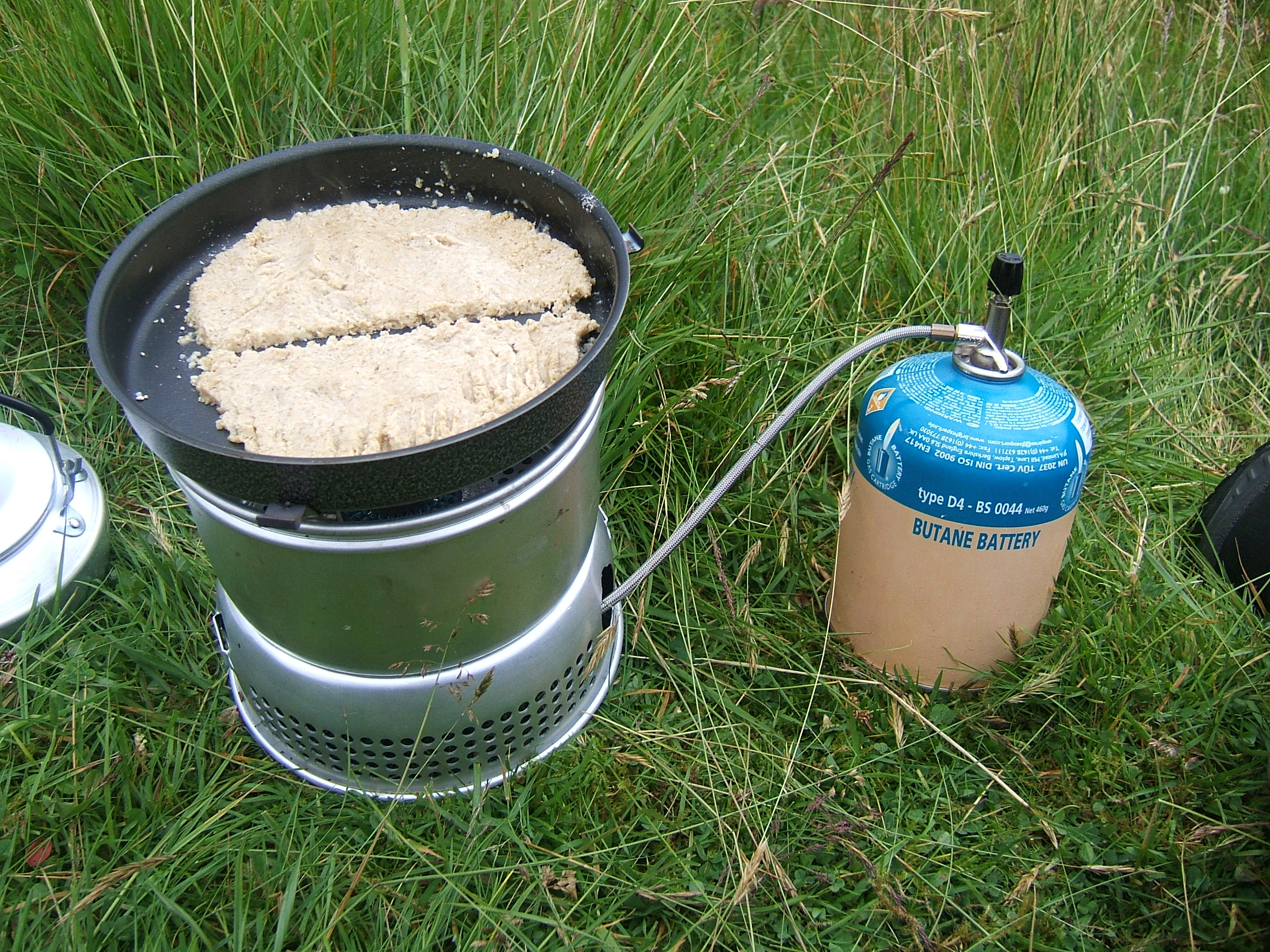 Baking oatcakes on a Trangia gas-fired stove